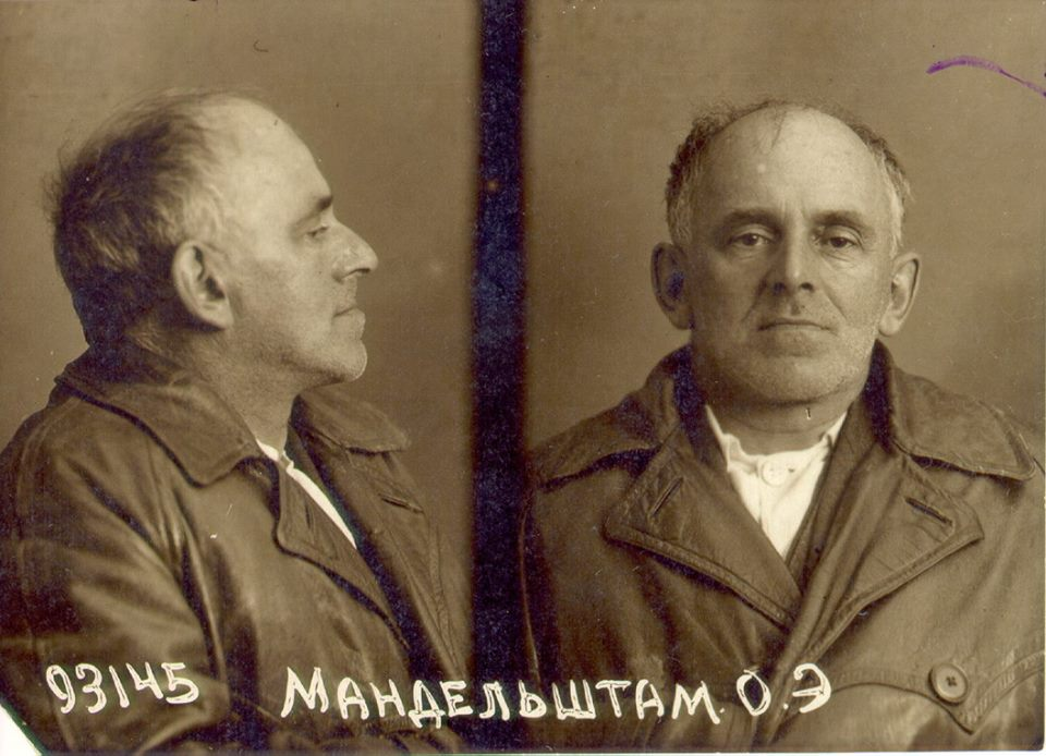 Photo of Osip Mandelstam made by the NKVD after his arrest.